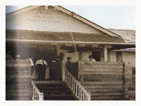 Police Station in Simunjan District, Sarawak during 1950s